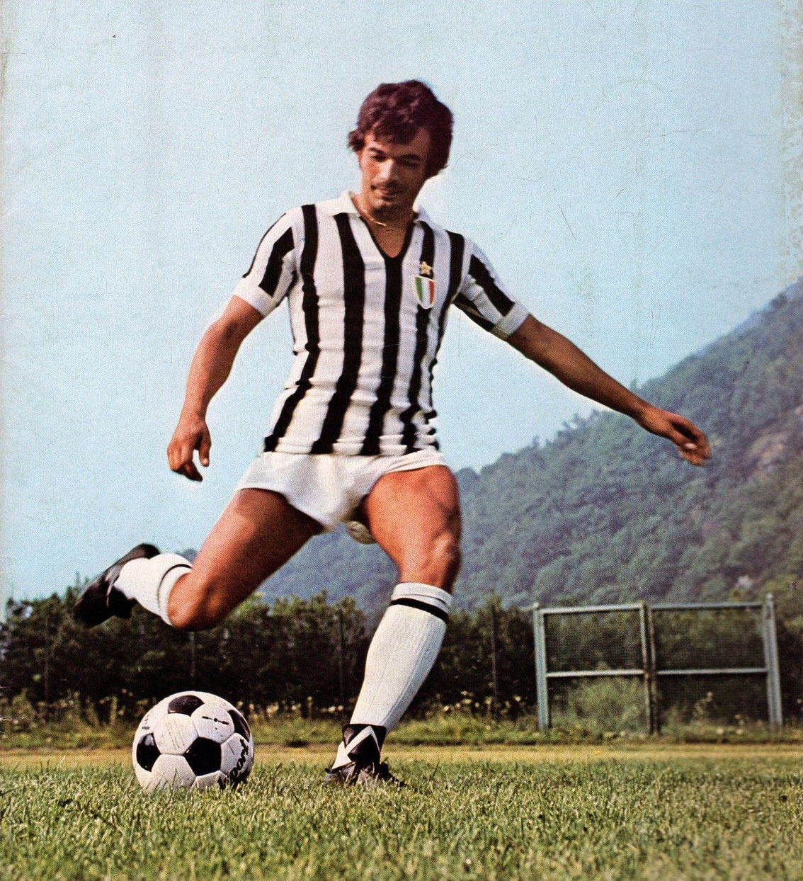 Italian footballer Sergio "Bobo" Gori in action with Juventus F.C. at the beginning of the 1975–76 season.